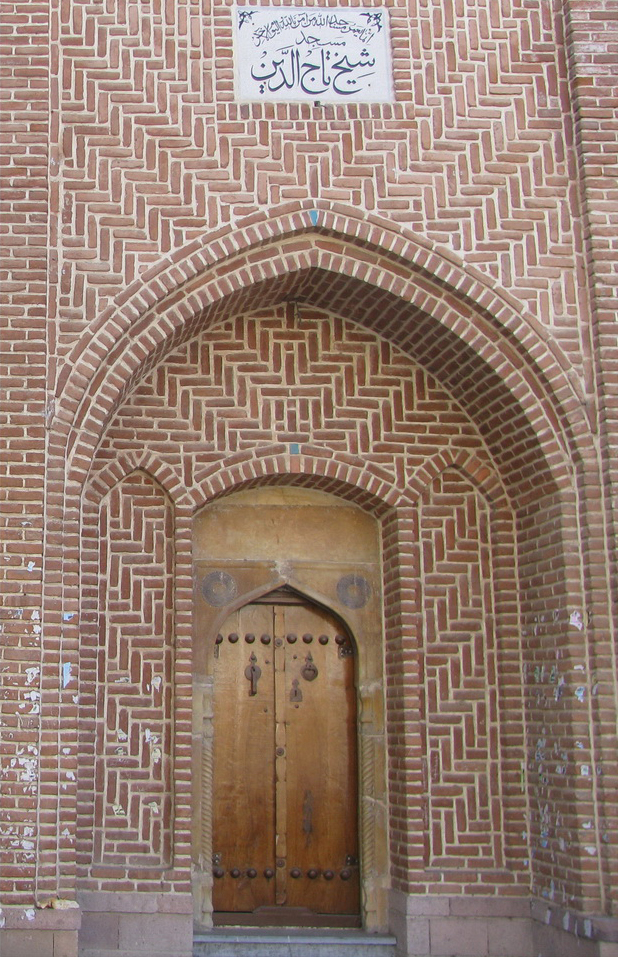 Shikh Tajaddin Mosque, Maragheh, Iran.